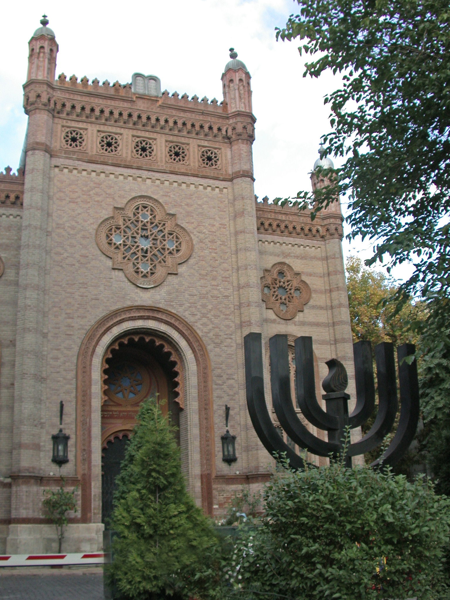 Choral Temple synagogue, Bucharest, Romania